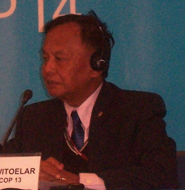 "Troika" Press Conference at the Poznan UN Climate Conference (COP 14 / MOP 4), 1 December, 2008 - Anders Fogh Rasmussen, Donald Tusk, Rachmat Witoelar